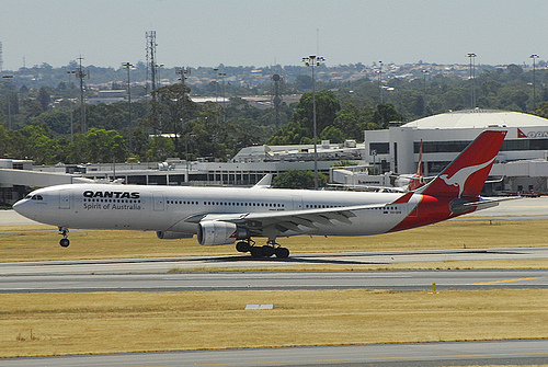 A Qantas Airbus A330 touching down at Perth International Airport.